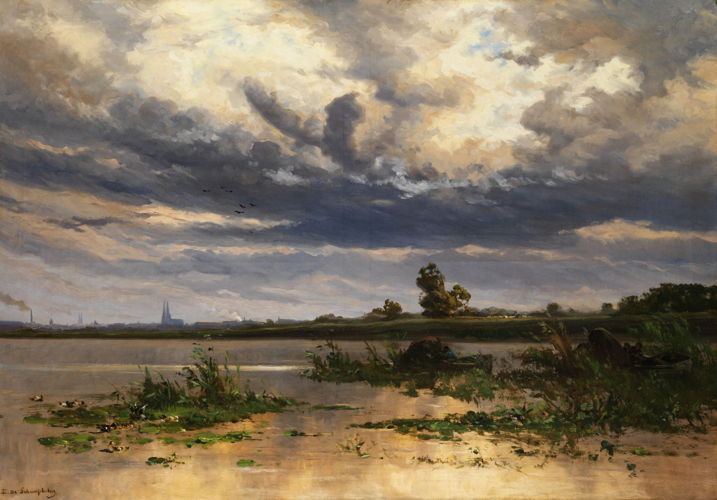 Reed bank landscape with boats and view of a town. Oil on canvas. 81,5 x 117 cm.